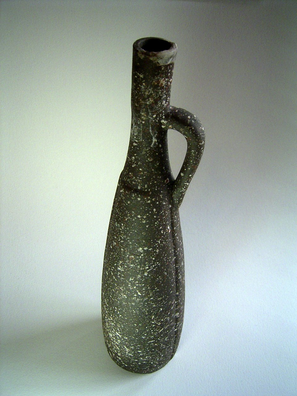 Image of an old Kazakhstan wine bottle.